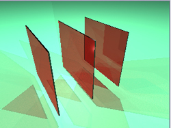 Cristallographic lattice planes Image generated by Wikityke